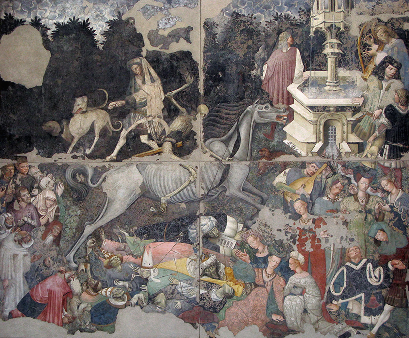 Triumph of death